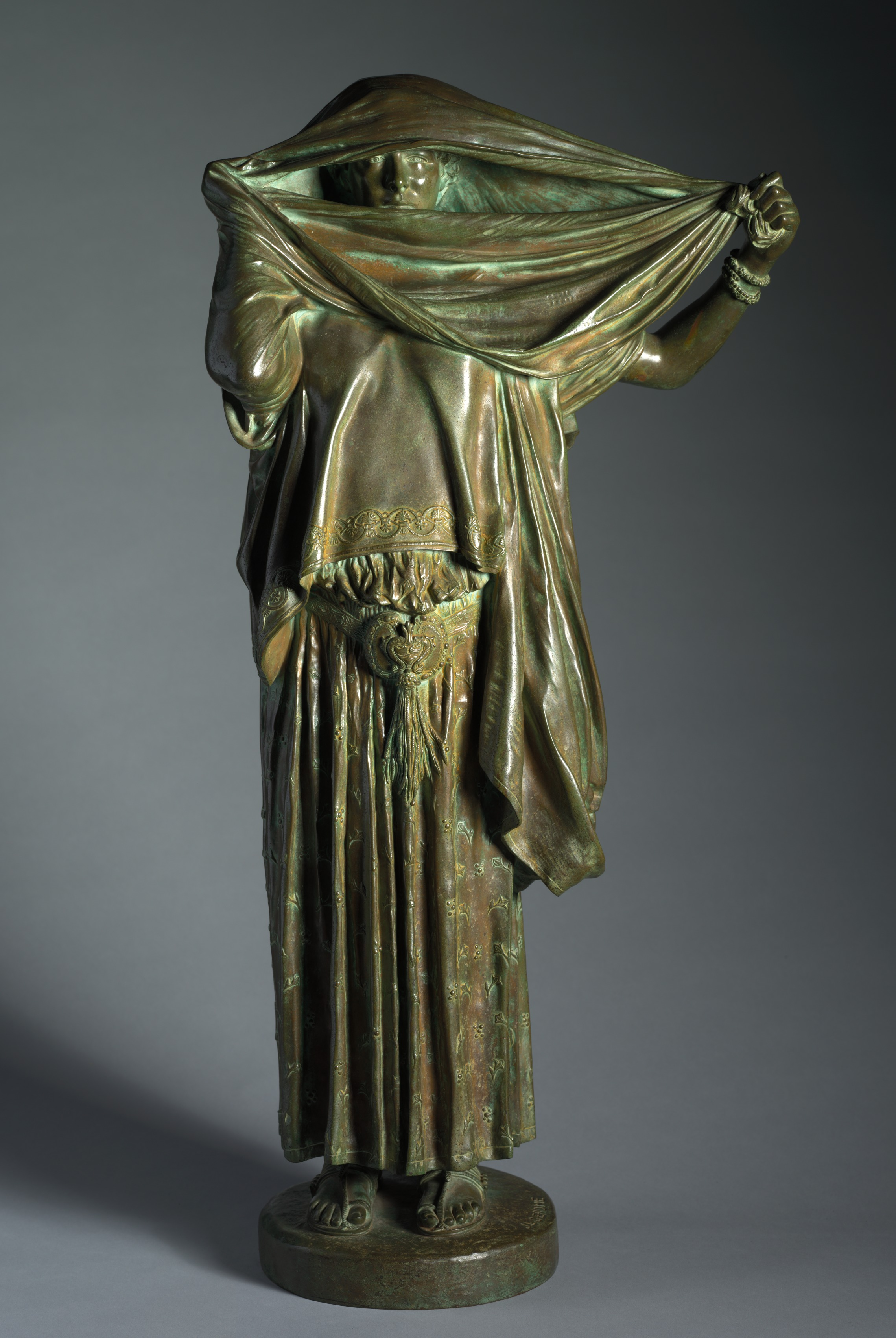 Many of Gérôme’s best known works reflect the 19th-century European fascination with the Middle East, Asia, and North Africa, which manifested in Orientalist works like this sculpture depicting a woman adjusting her veil. Multiple versions of this sculpture exist, including some with marble and gold additions.